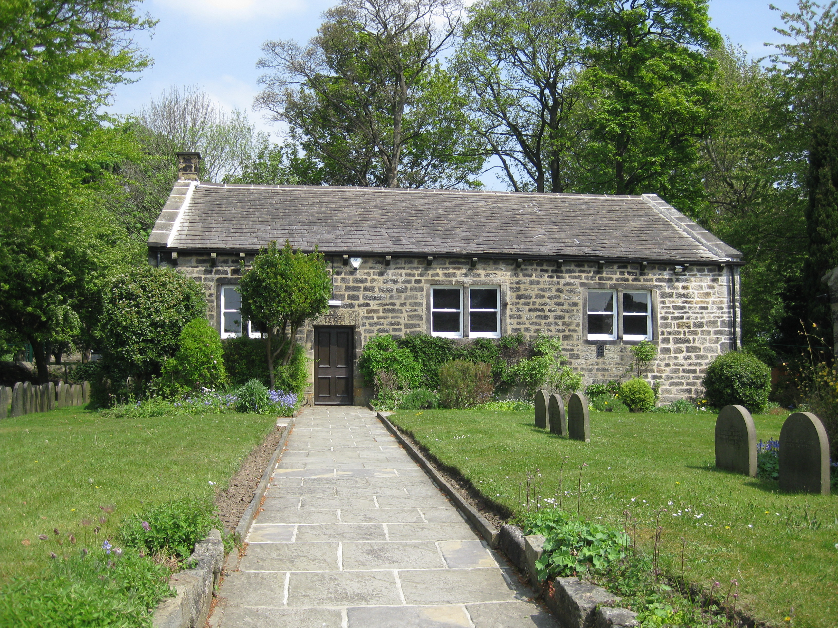 Friends Meeting House, Quakers Lane, Rawdon, Leeds, West Yorkshire, seen from south-southwest. Single-storey sandstone building with slate roof, and the date 1697 above the door. It is in a burial ground with gravestones either side of the path.